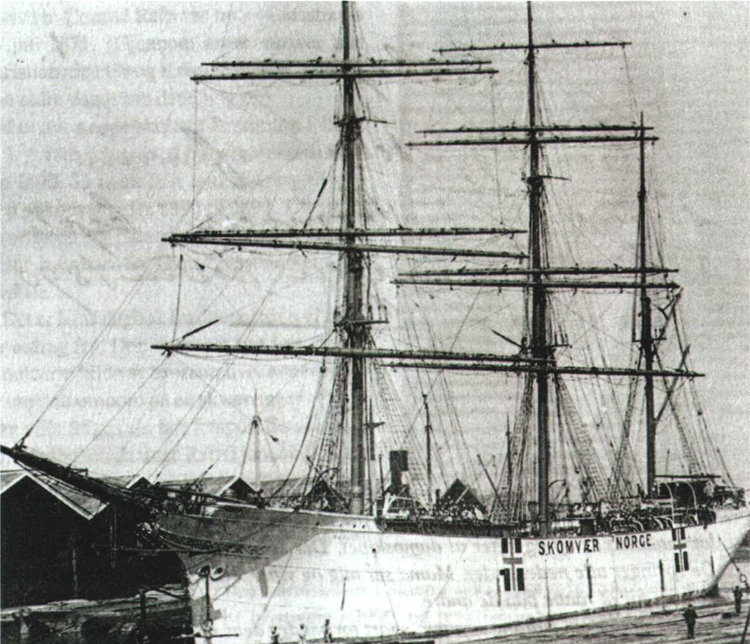 Steel-hulled barque "Skomvær" at port.